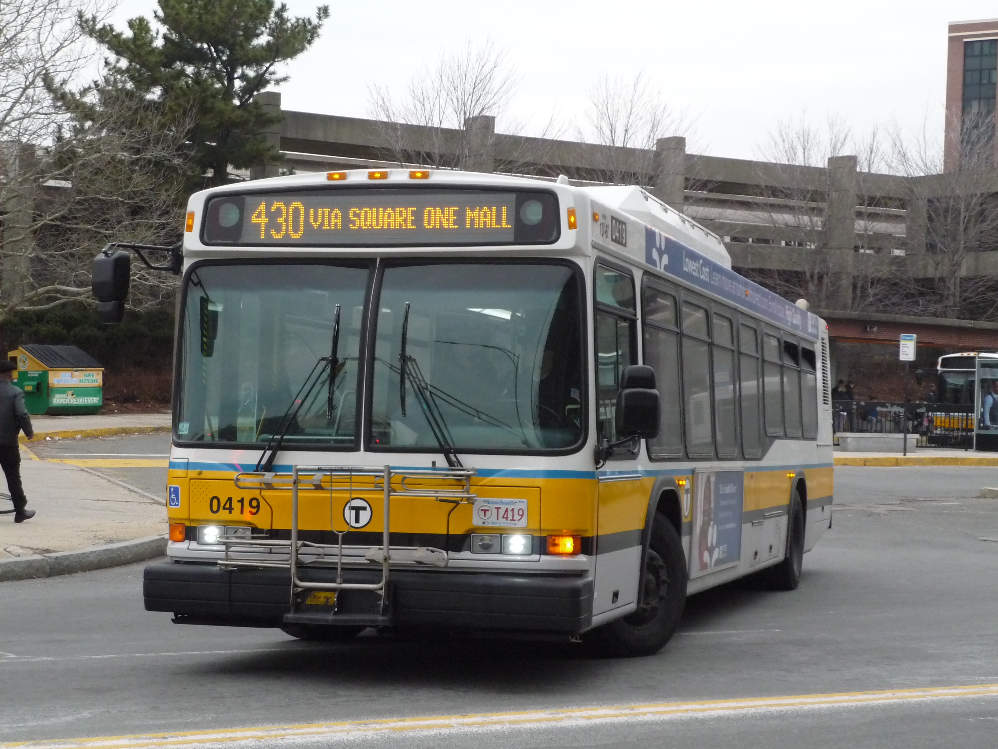 Neoplan AN440LF #0419 on route 430 at Malden Center in March 2016